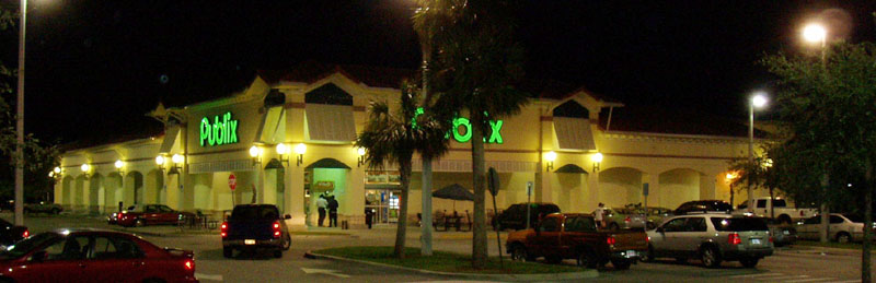 Publix Supermarket, "Publix at Palm Aire", Pompano Beach, Florida.